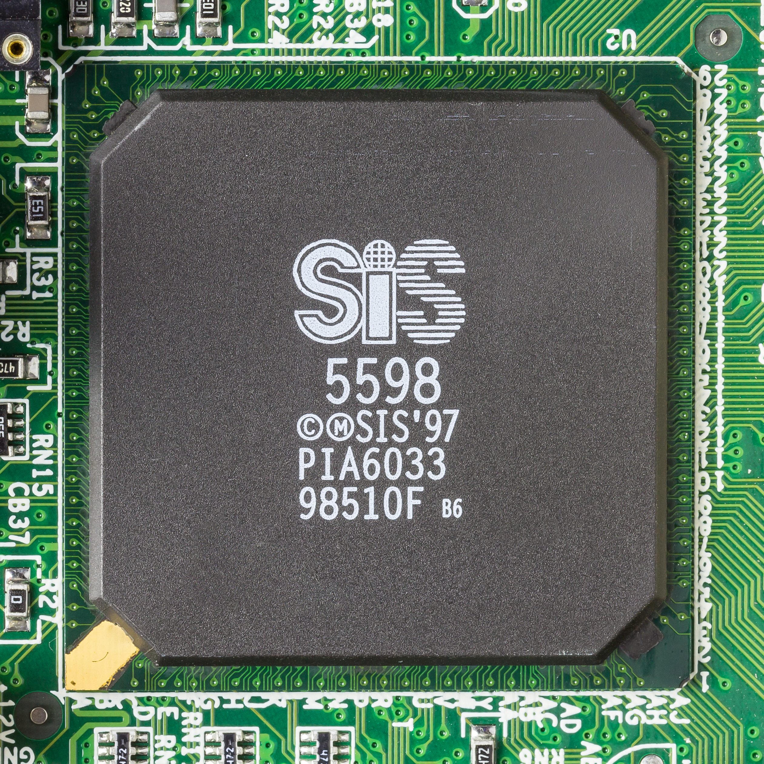 ROCKY-518HV - SiS5598 - Pentium PCI/ISA Chipset